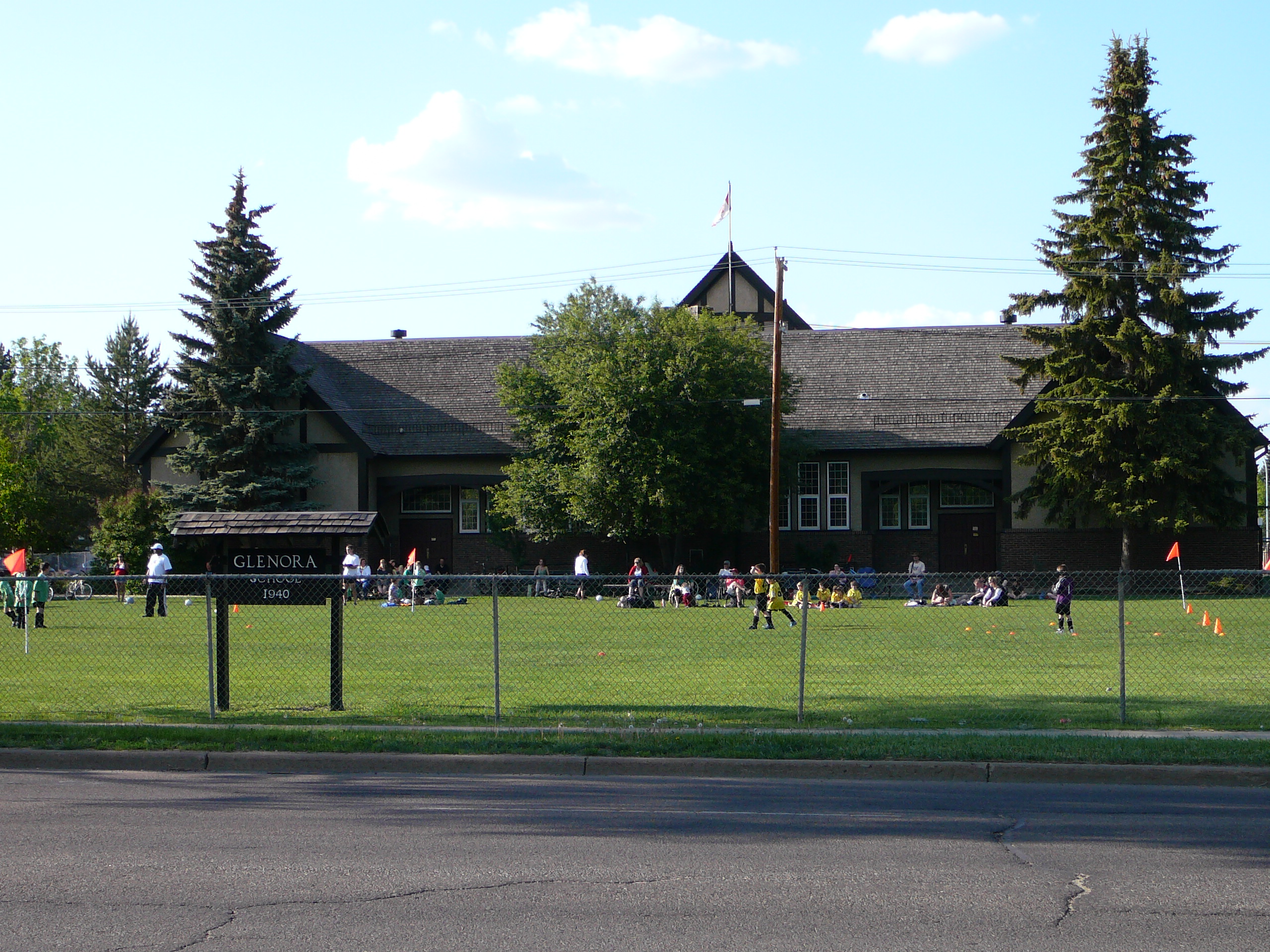 Picture of Glenora School in Edmonton, Alberta, Canada